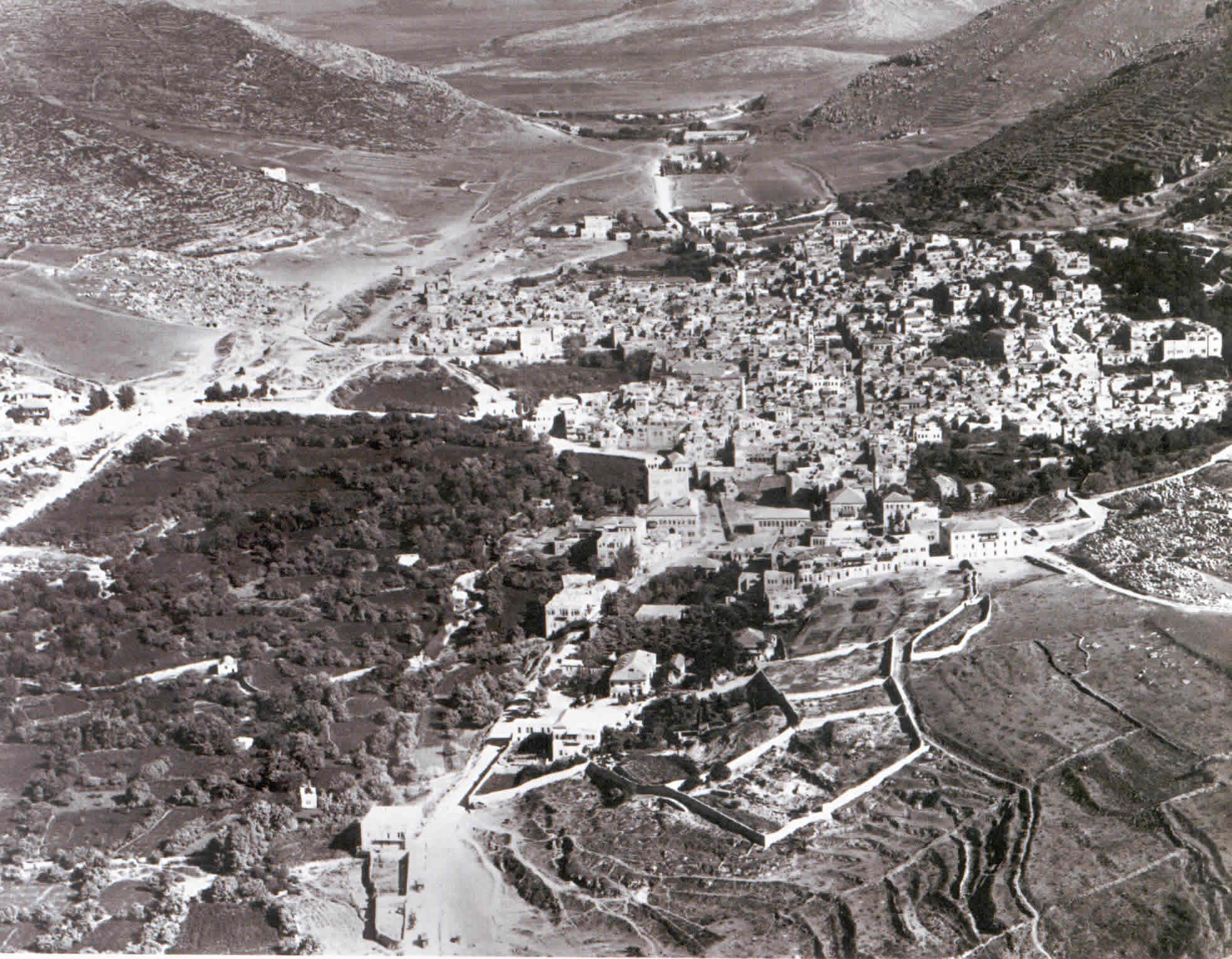 Cropped image of Nablus skyline from about 1,000 feet above at the beginning of British rule.